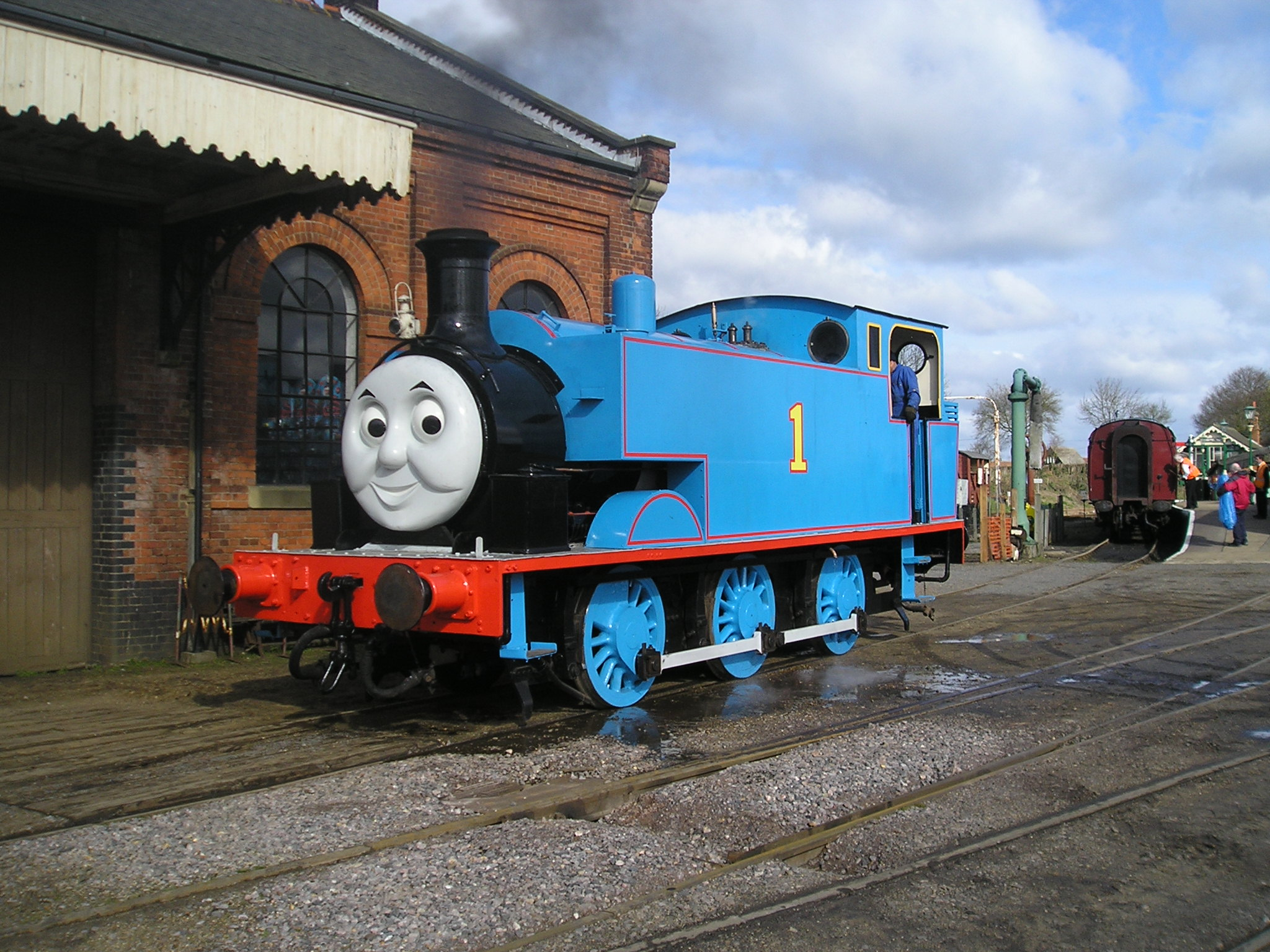 The first public steaming of RSH 0-6-0 no. 54